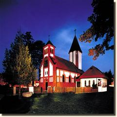 Harkany- katholic church